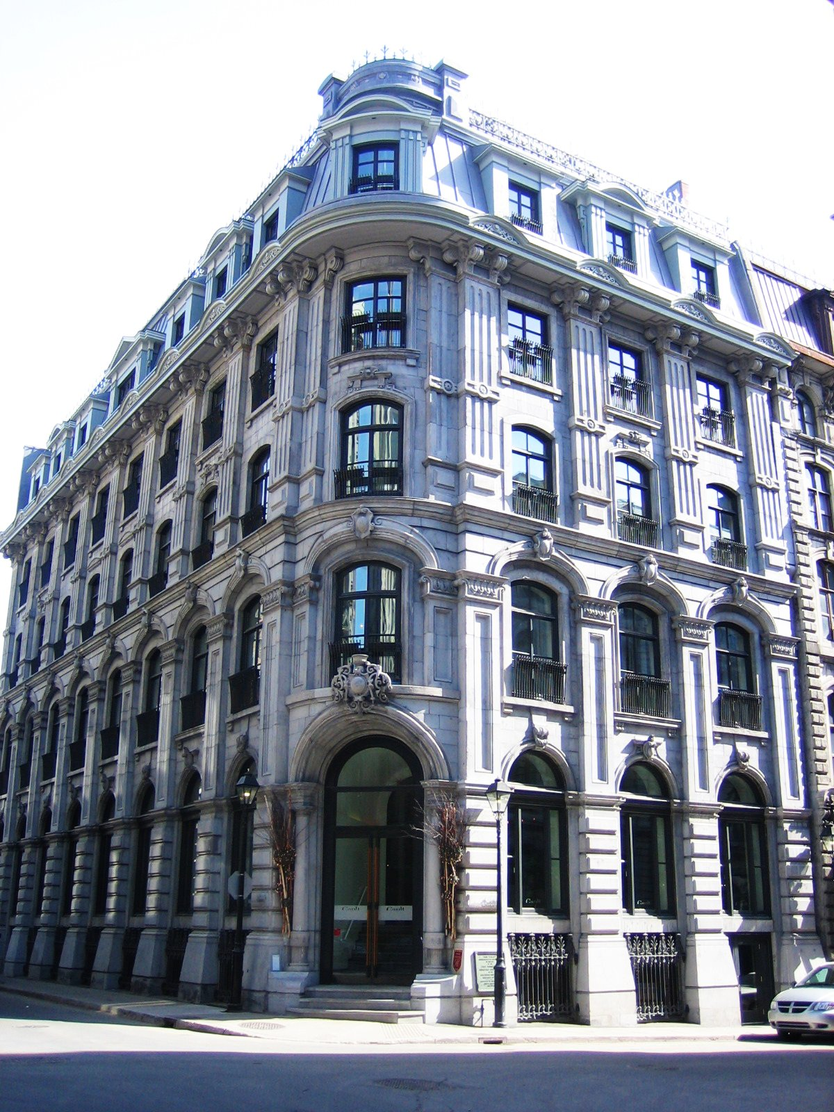 The old Gault Brothers & Co. store and warehouse Building (1871), transformed in a YMCA, now Hotel Gault, 447-449 Sainte-Hélène Street, Montreal, Quebec, Canada.